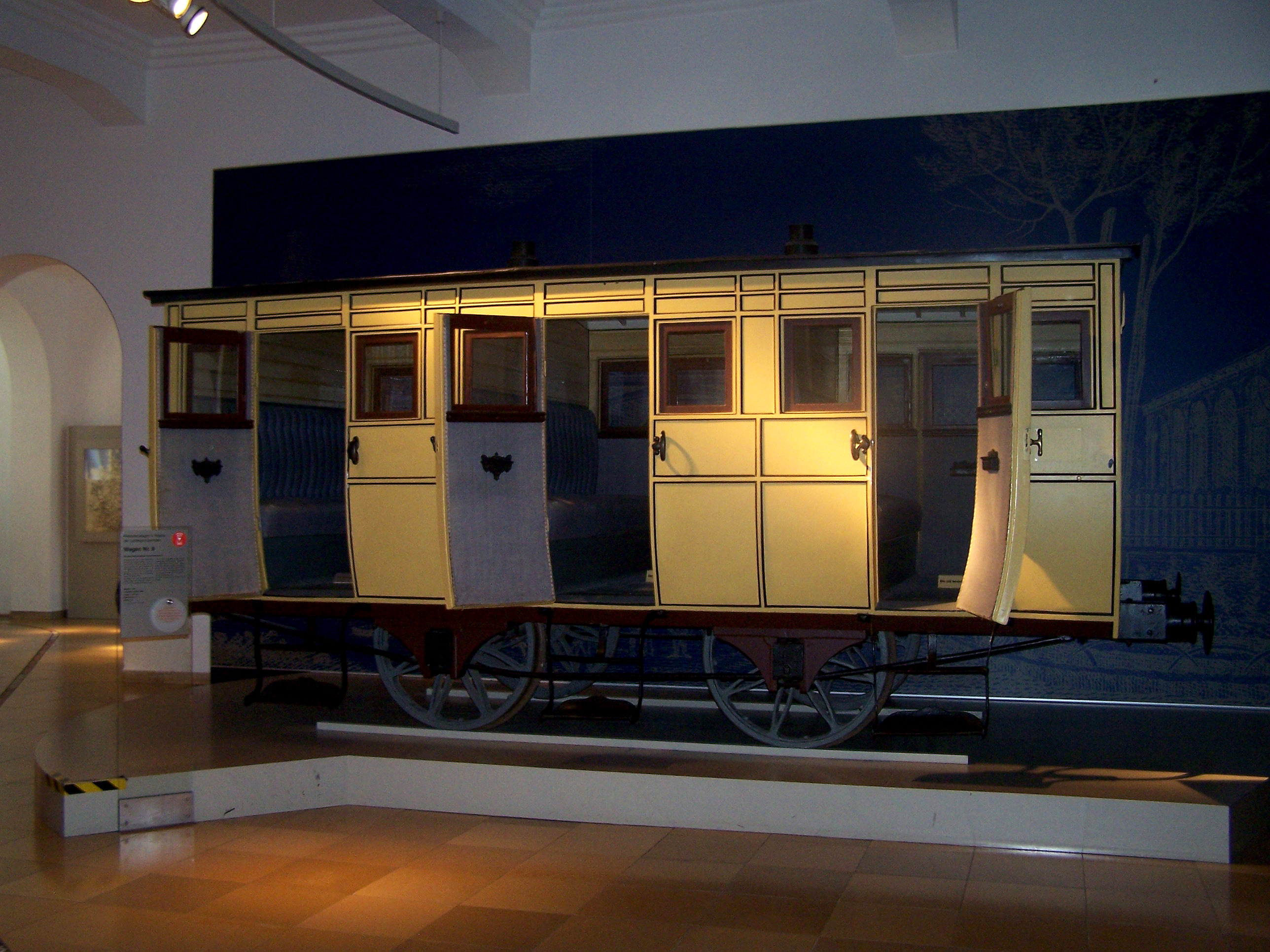 wooden waggon of the first steam locomotive in Germany Adler (original of 1835) in the Transport Museum in Nuremberg